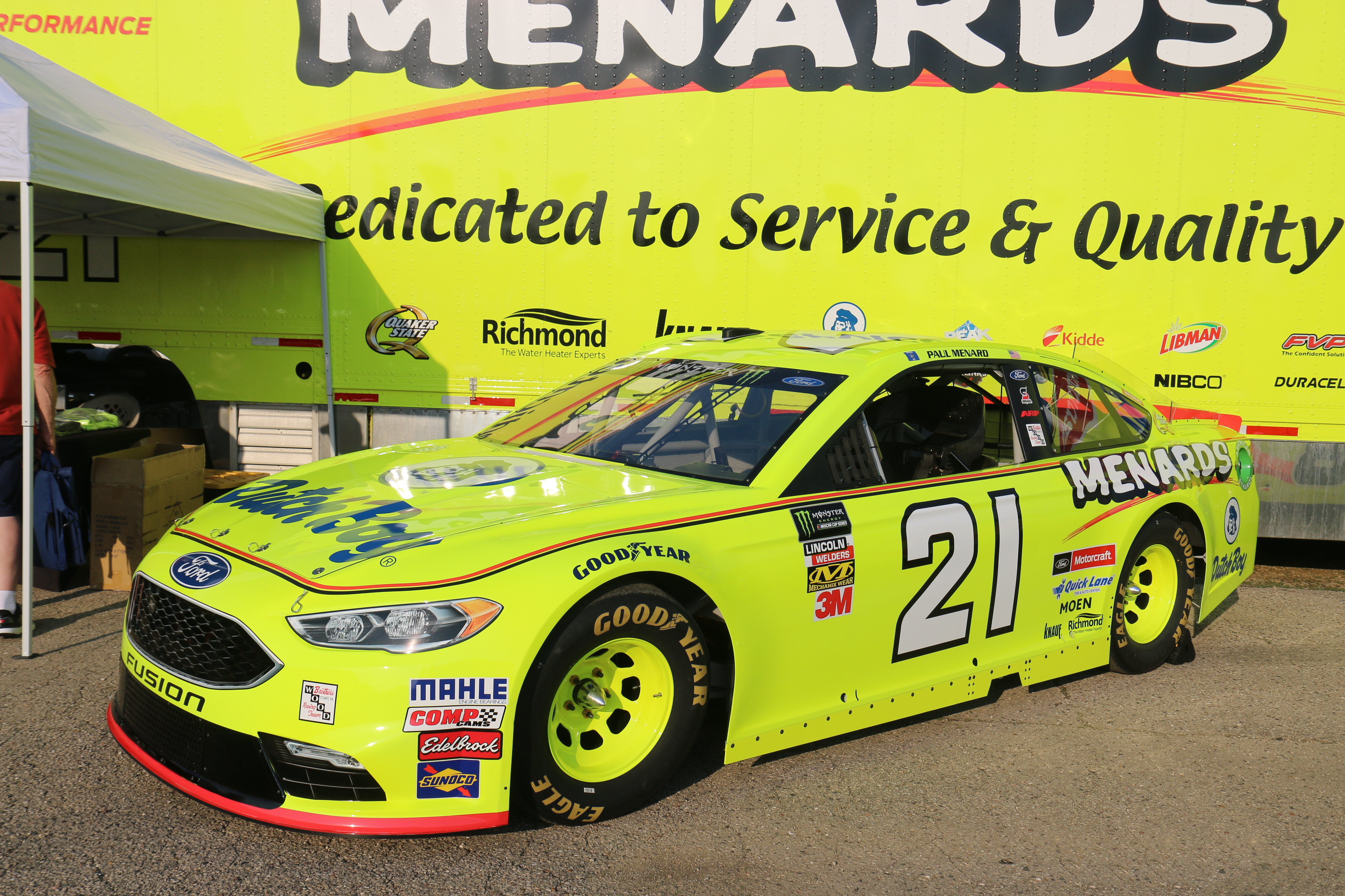 The #21 NASCAR Monster Energy Cup car of Paul Menard on display at Madison International Speedway's ARCA race.